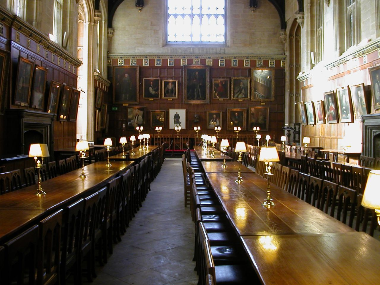 This is a lame touristy shot of the hall used for Hogwart's Hall in the Harry Potter films.